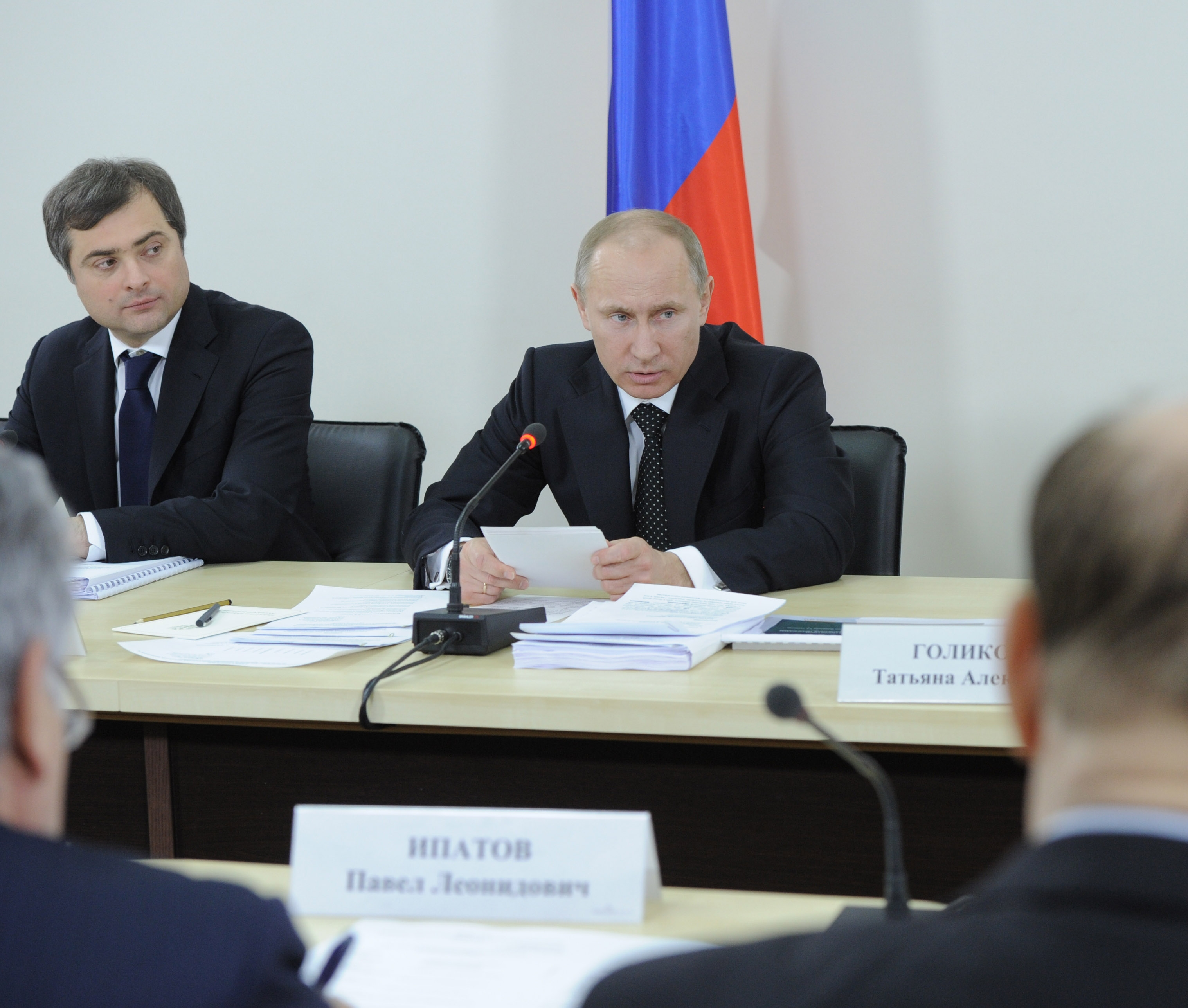 Prime Minister Vladimir Putin and Deputy Prime Minister Vladislav Surkov at a videoconference on the implementation of demographic policy and regional programmes to modernise healthcare